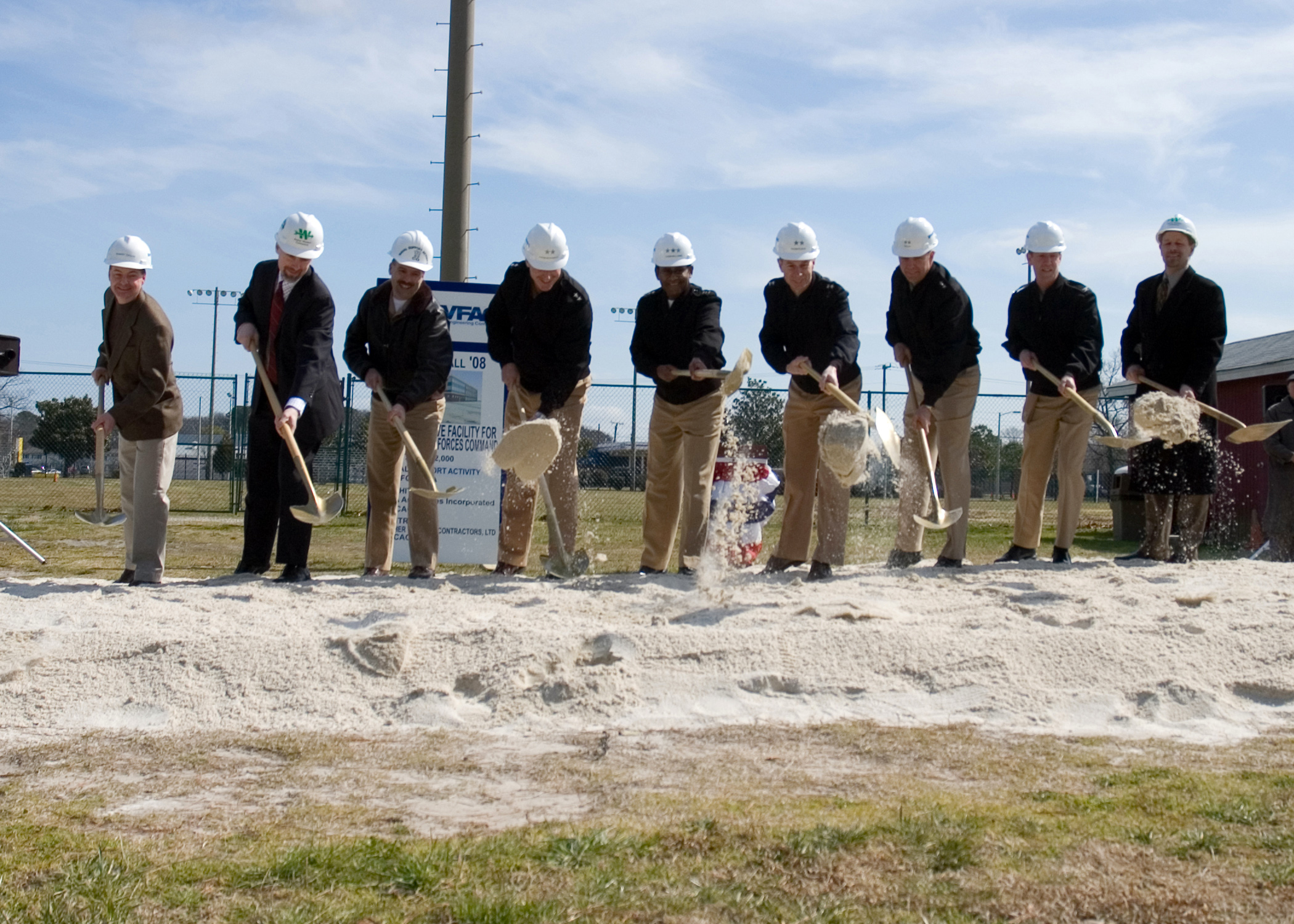 070309-N-6091H-035 NORFOLK, Va. (March 9, 2007) - Navy Officials and civilian contractors break ground in a ceremony for Navy Reserve Forces Command's new administrative facility at Naval Support Activity, Norfolk. An estimated 300 Navy personnel and 100 civilians will work in the new building upon relocation from New Orleans, La. The building is expected to open in 2009. U.S. Navy photo by Mass Communication Specialist 3rd Class Chad Hallford (RELEASED)